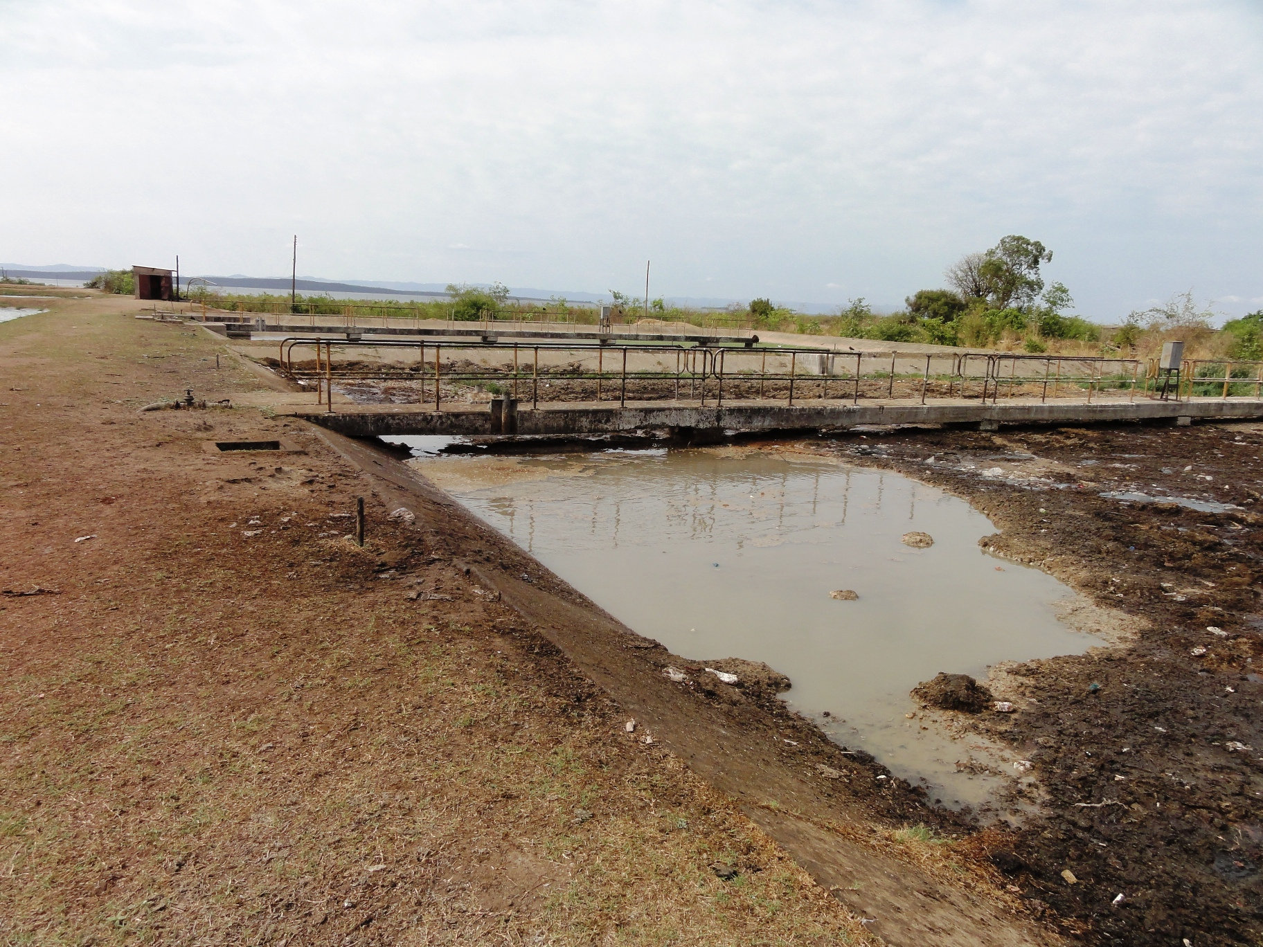 The Nyamhunga wastewater treatment plant in Kariba. Photo taken at 4 November 2011 by P. Feiereisen in Kariba, Zimbabwe.